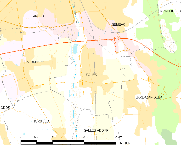 Map of French municipality